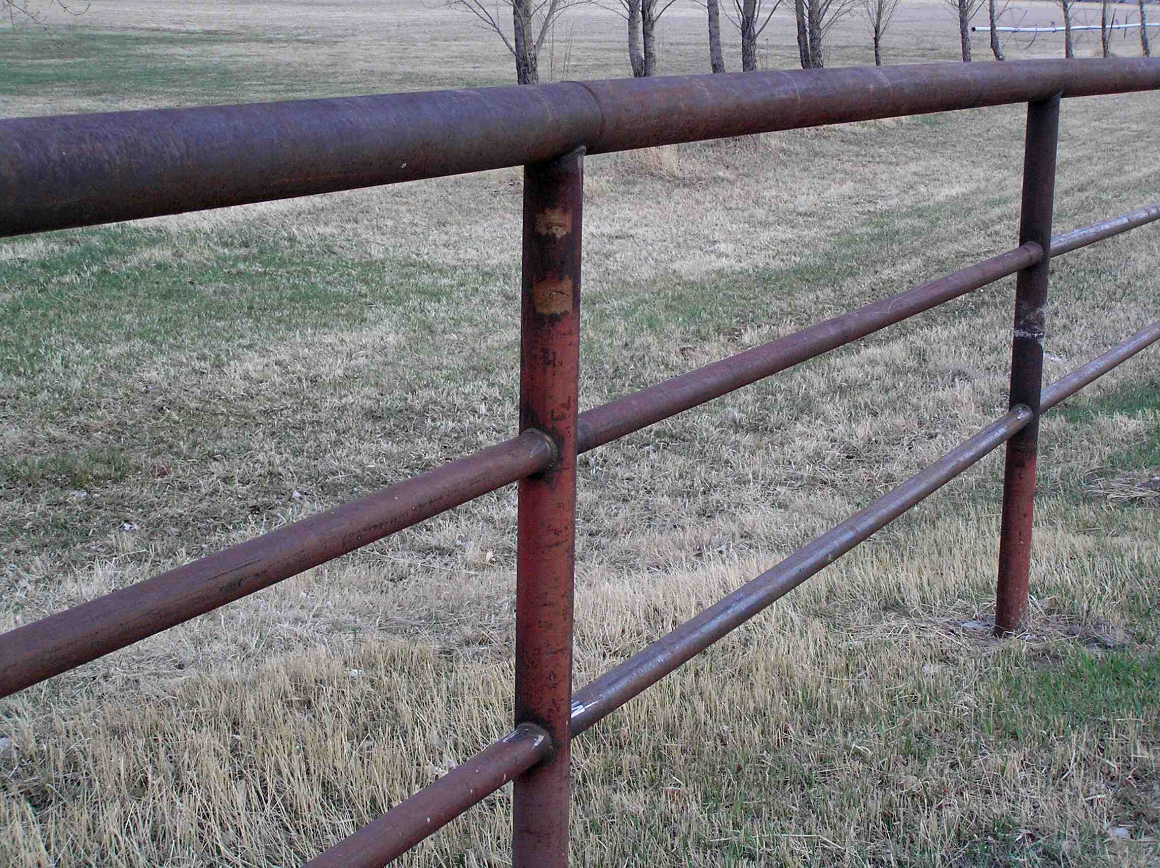 A pipe fence is sturdy and is unlikely to break